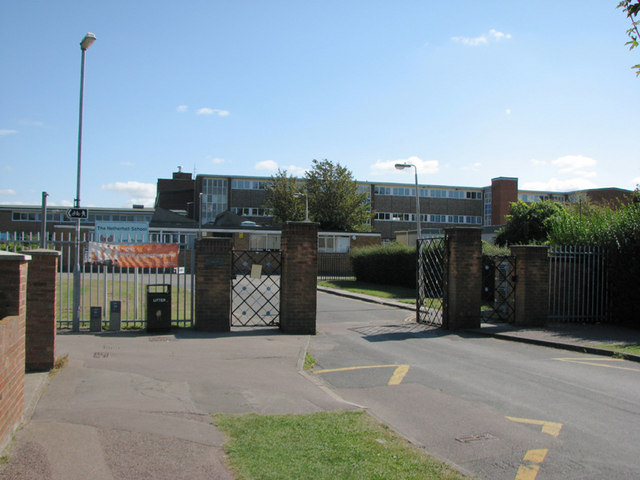 Netherhall Lower School This is the entrance at the end of Gunhild Way. From 1957 these buildings housed the two Netherhall Secondary Modern schools for boys and girls which merged in 1974 with the Cambridge Grammar School for Boys on Queen Edith's Way (thereafter the Upper School) to form the split-site comprehensive Netherhall School. These buildings will shortly be redundant: a major building programme will see the entire school concentrated on the Queen Edith's Way site from 2010.